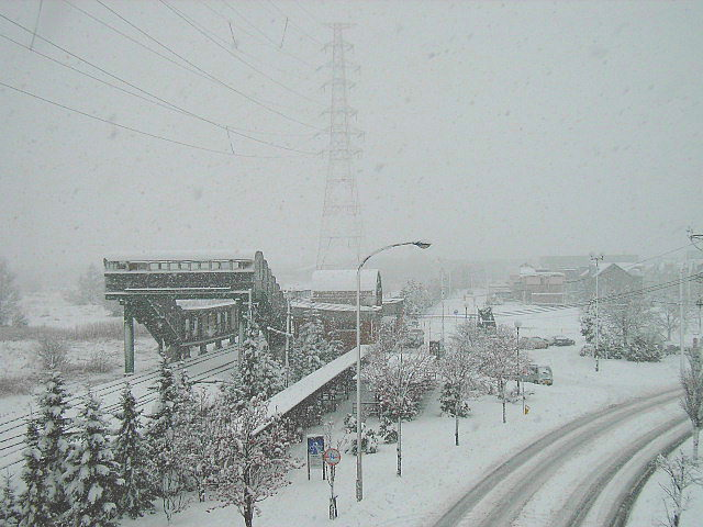 Ainosato-Kōen Station on the Sassho Line in Sapporo, Hokkaido, Japan